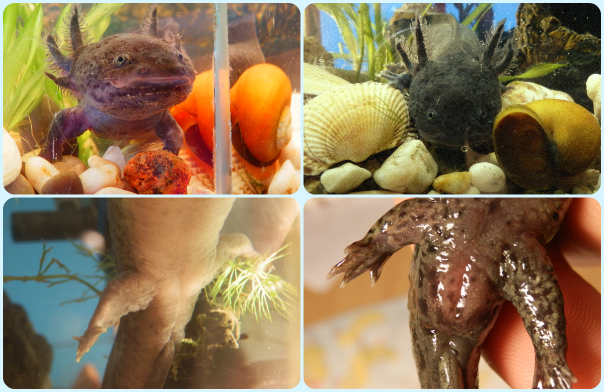 Ambystoma mexicanum (axolotl) female (left) and male (right) in reproductive condition